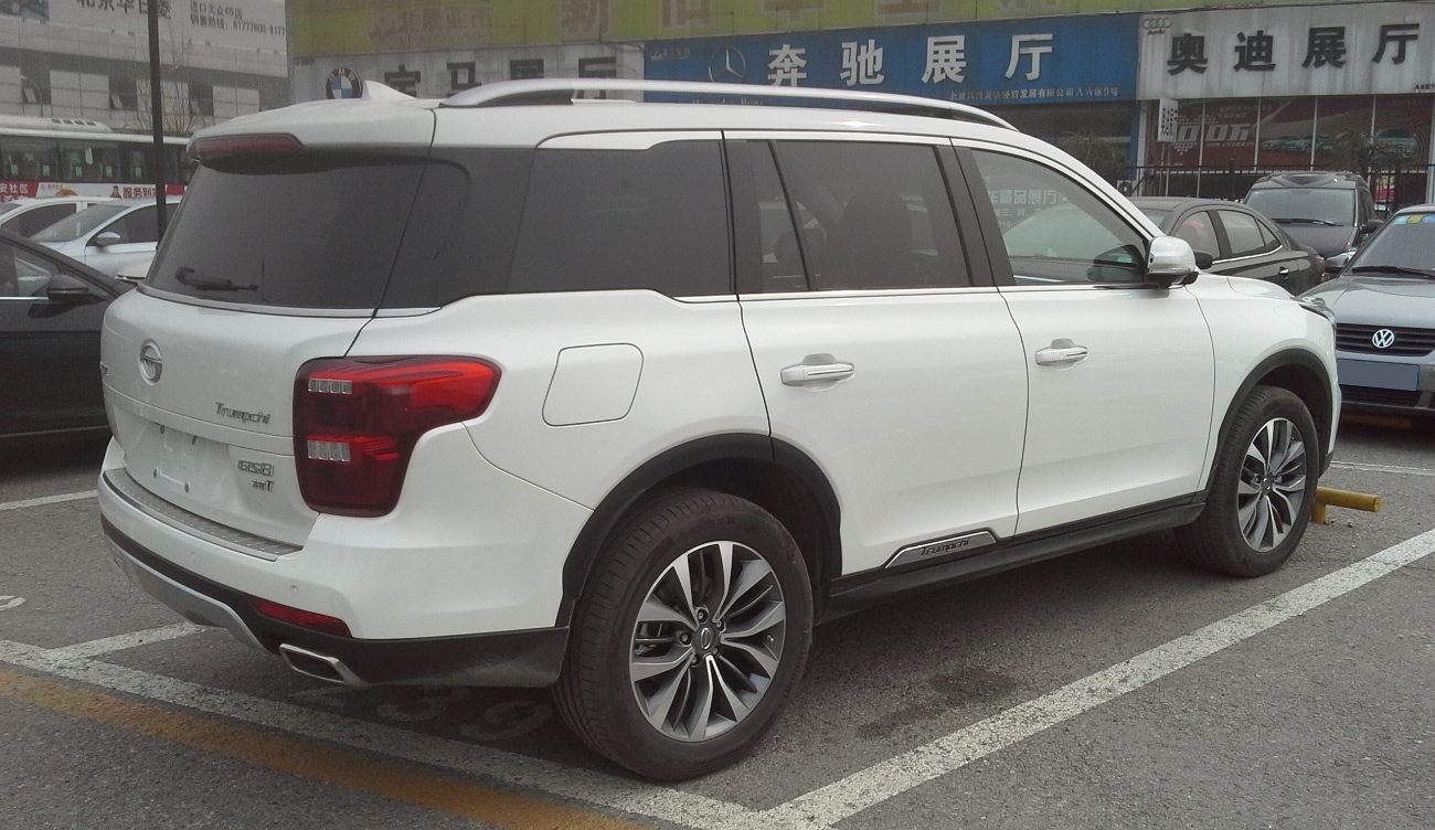 GAC Trumpchi GS8 photographed in Beijing, China.